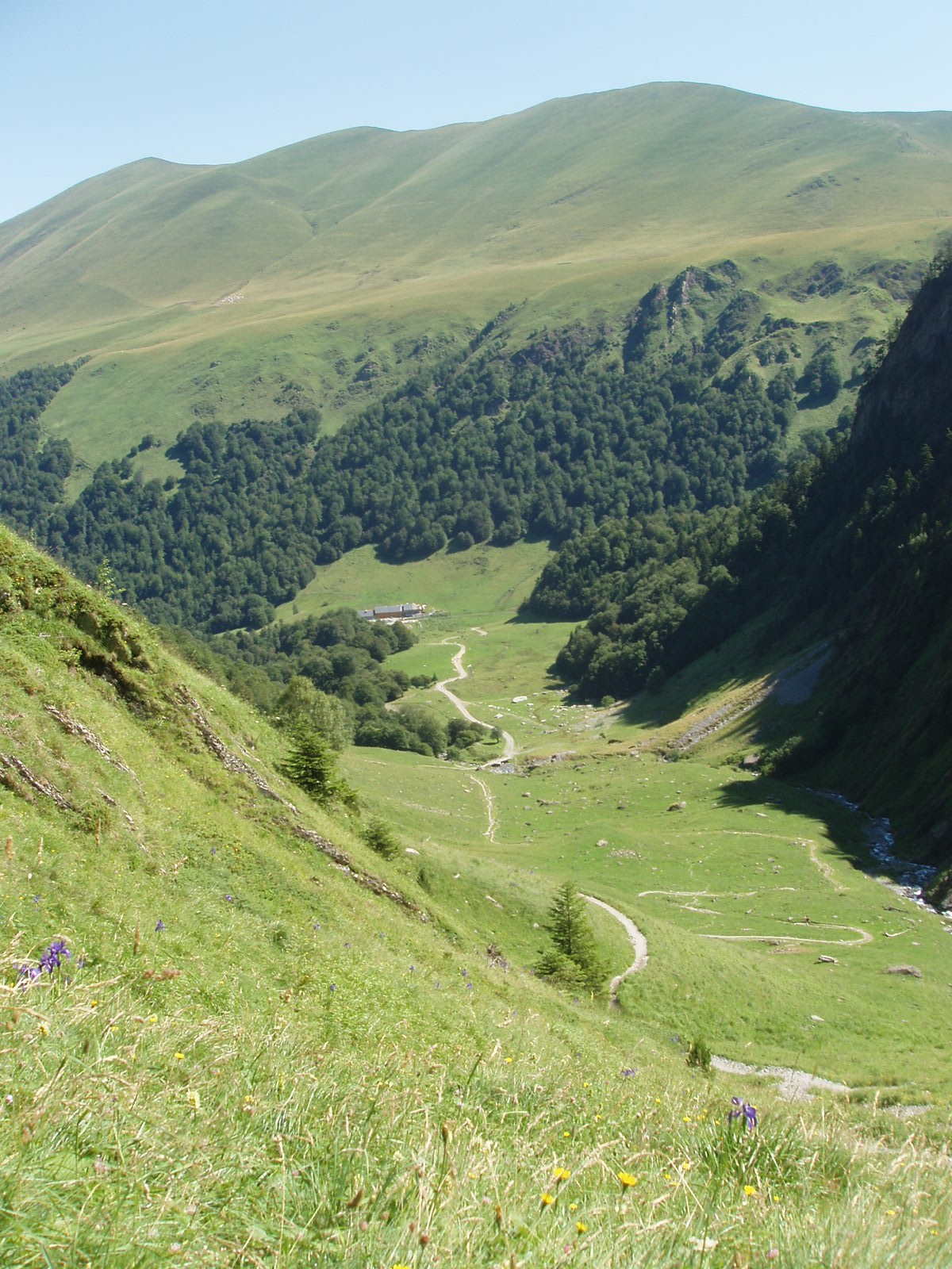 Hospice de France Haute-Garonne Pyrénées